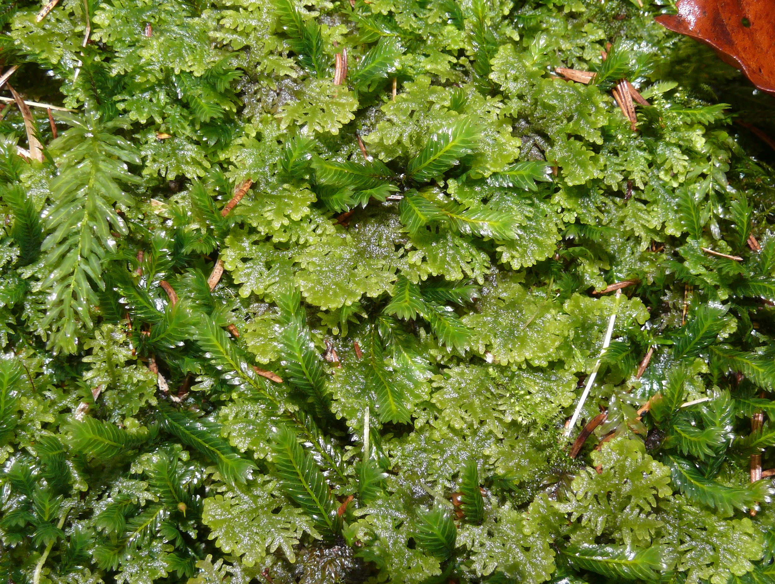 Trichocolea tomentella, Schwäbisch-Fränkische Waldberge, Germany on the left: Plagiomnium undulatum in between: Fissidens spec. (adianthoides?, taxifolius?)